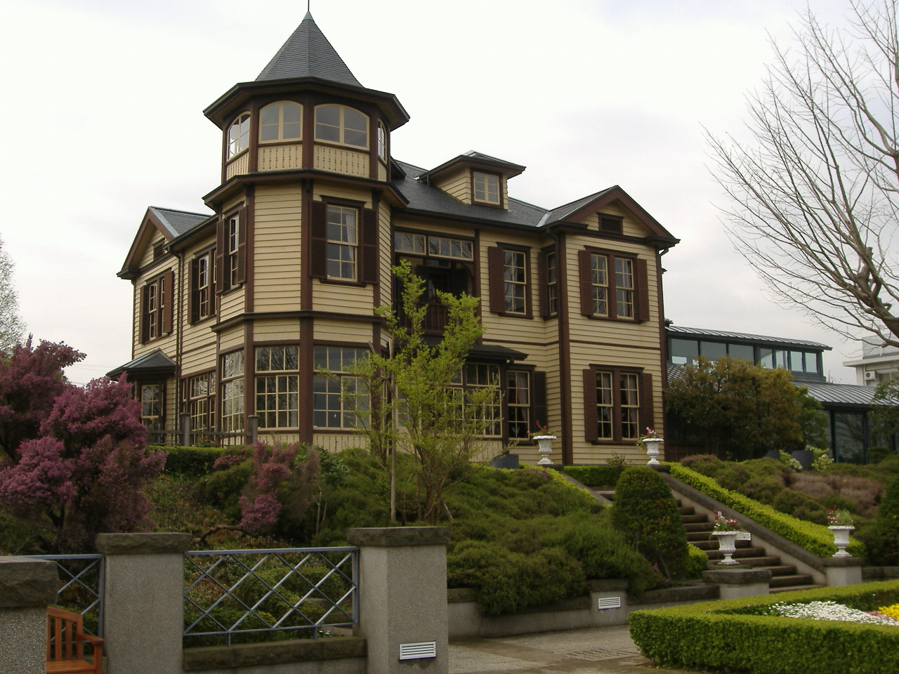 Diplomats House in Yamate_Italian_garden (Yokohama, Kanagawa prefecture, Japan)